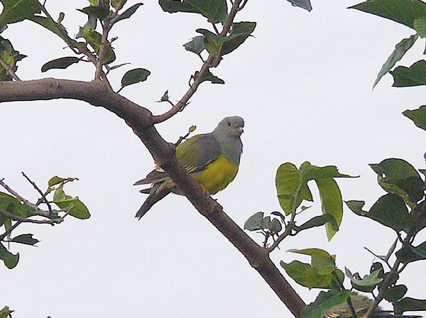 Bruce's green pigeon photographed in Kédougou, Senegal